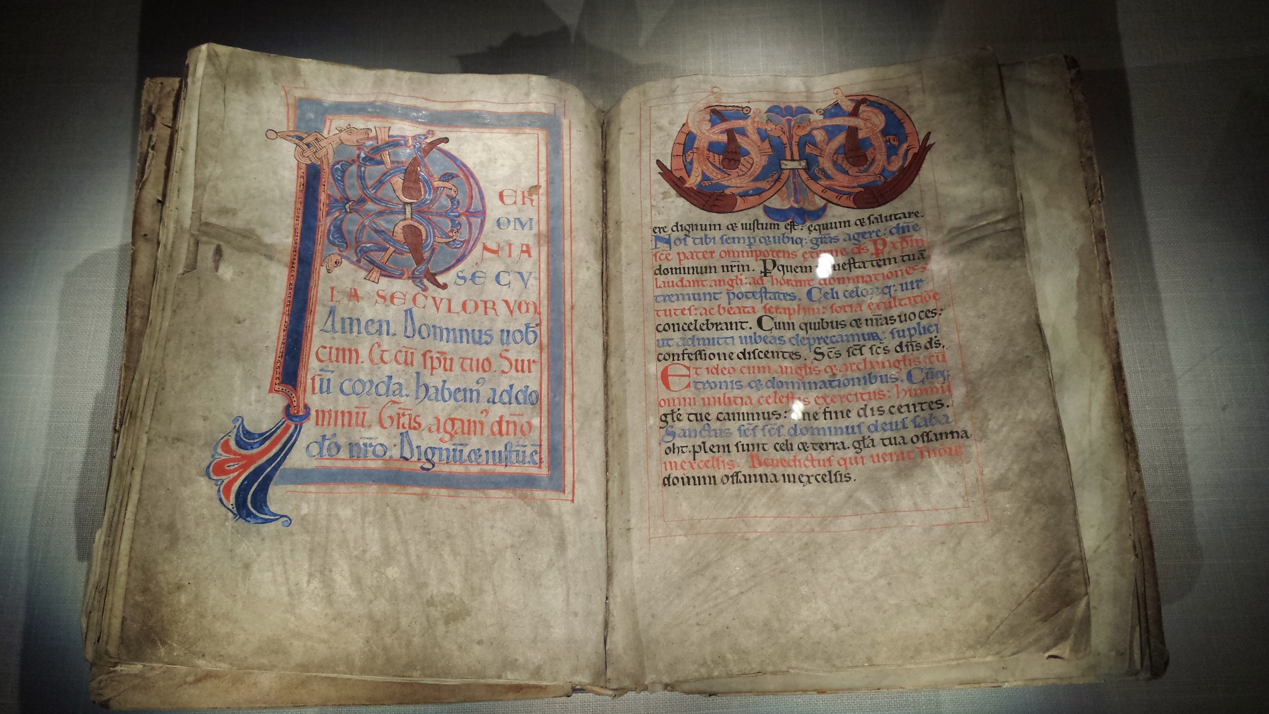 The Skara Missal dates back to the 12th century and can be found at Skara stifts- och landsbibliotek